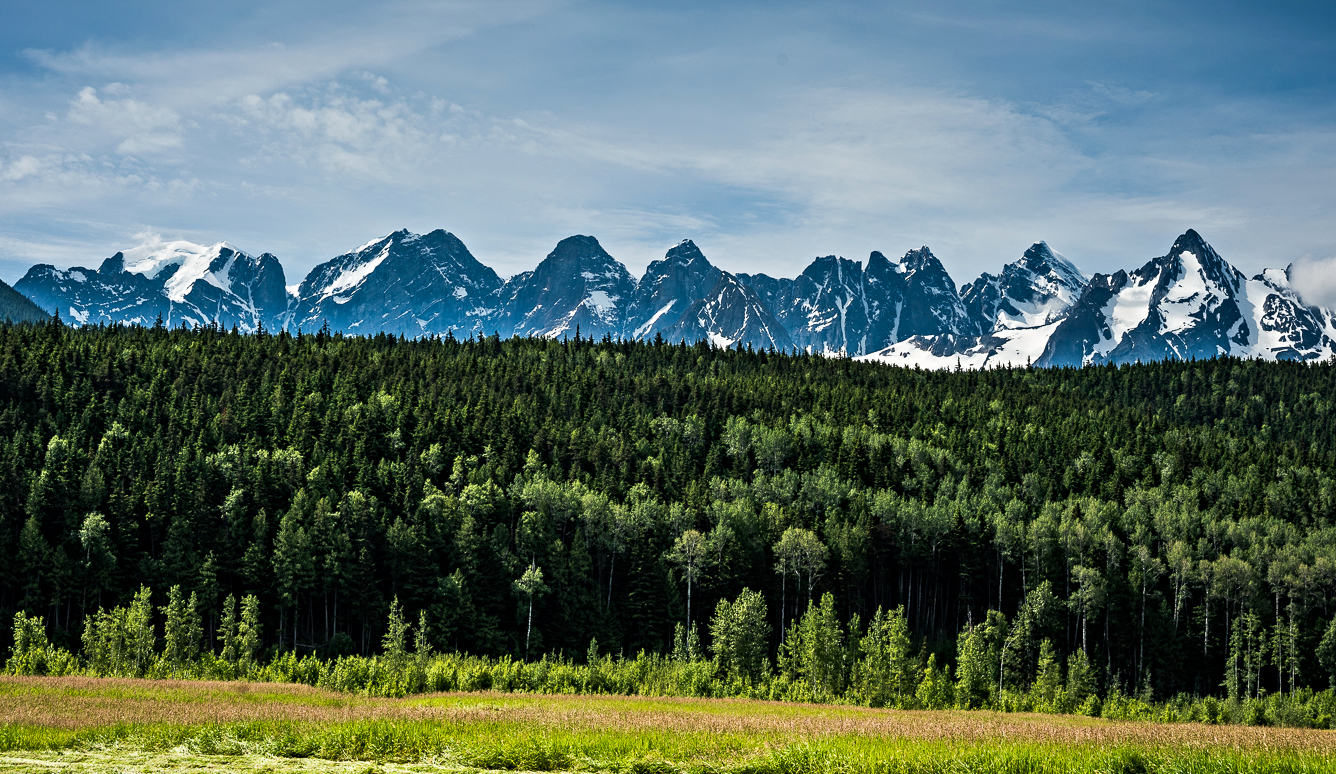 Seven Sisters Peaks plus Orion Peak (right) in British Columbia